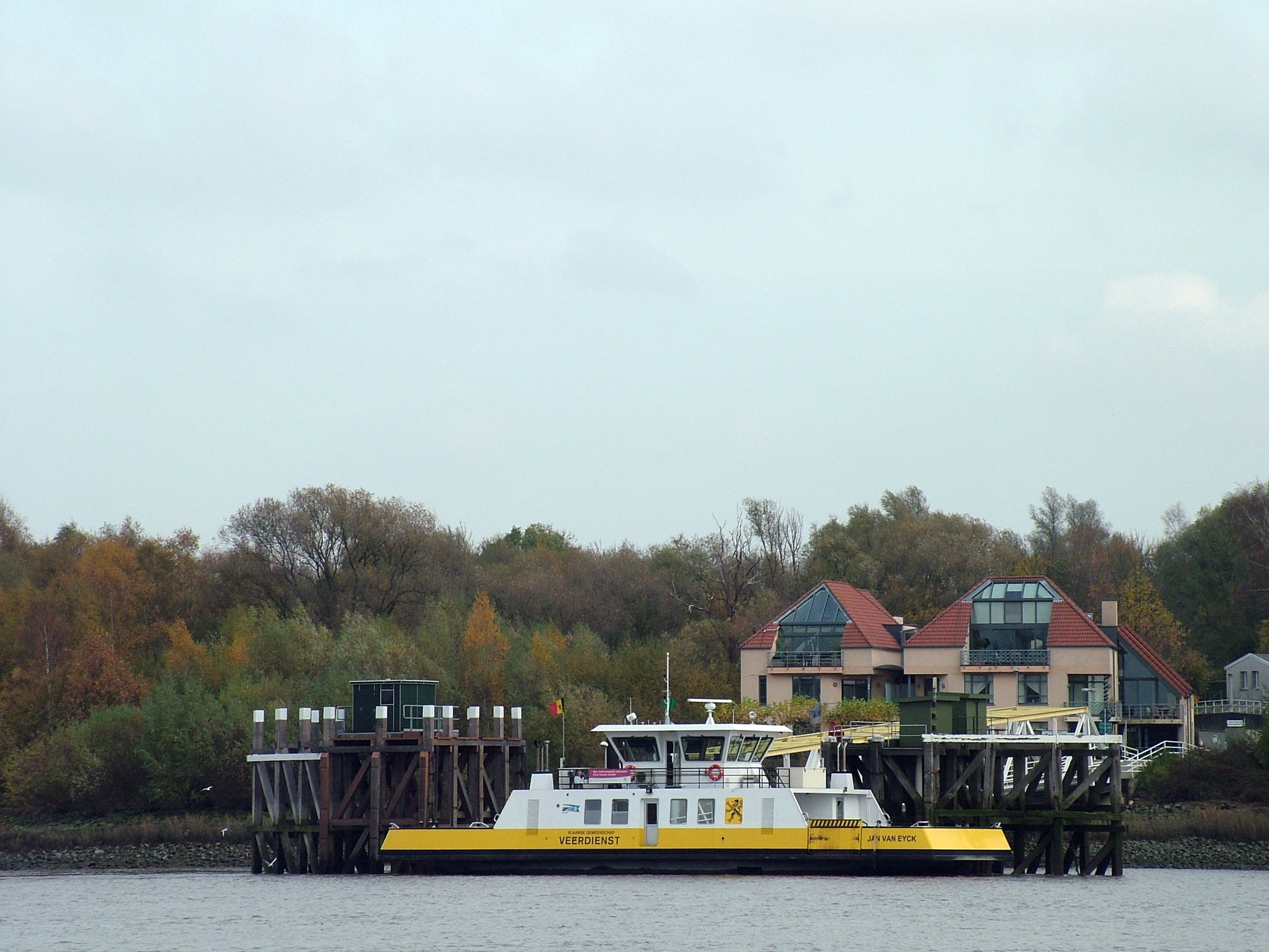 Ferry of Bazel-Hemiksem (view from Bazel to to Hemiksem)